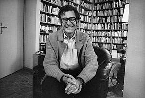 Jean-Claude Favez